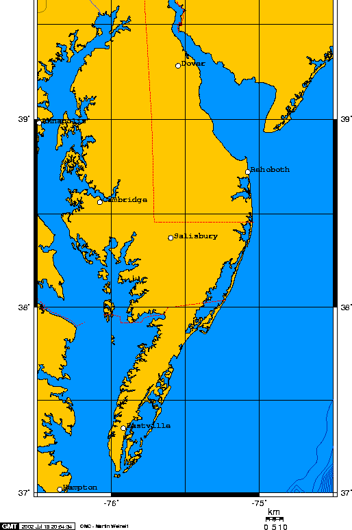 Part of (left to right) Virginia, Maryland, and Delaware.